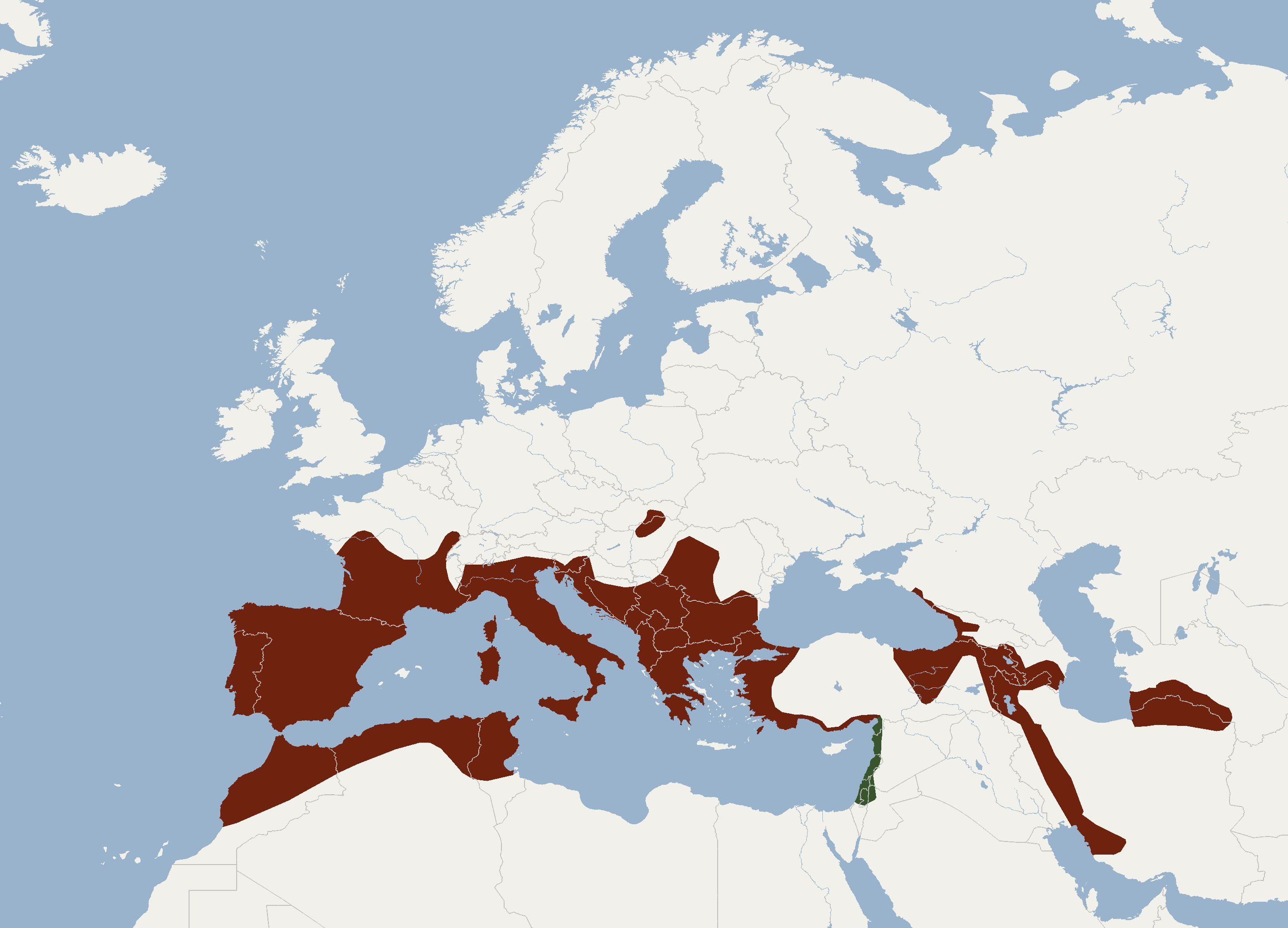 according to IUCNRedlist. subspecies range: R.e.euryale in brown, R.e.judaicus in green